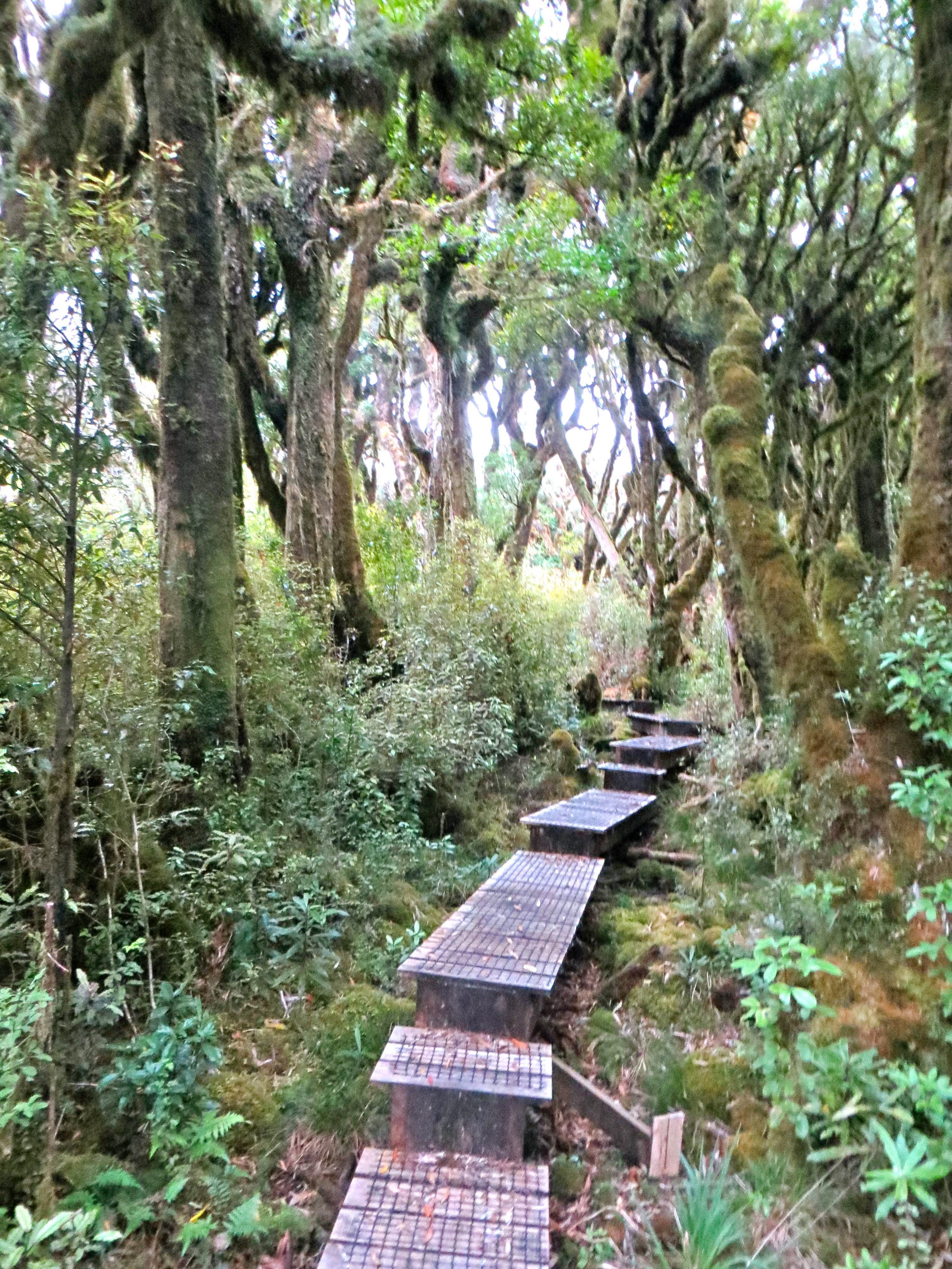 The boardwalk is being extended towards The Cone